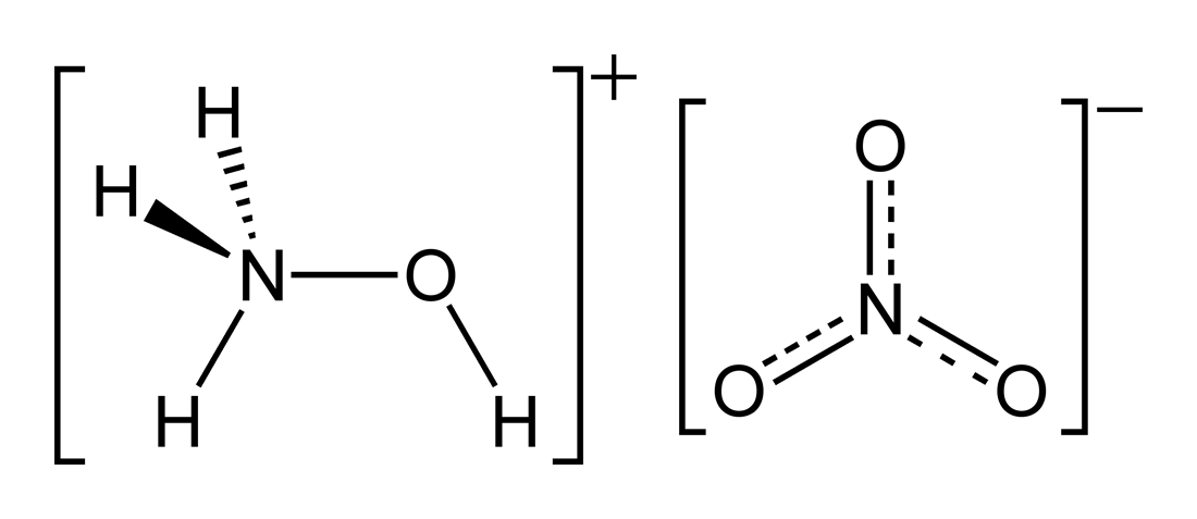 Structures of the ions in hydroxylammonium nitrate, H4N2O4, [NH3OH]+[NO3]−.